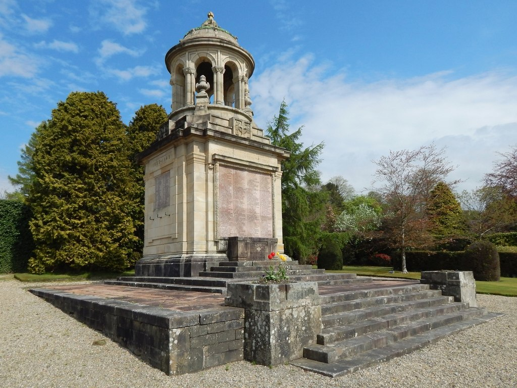 Helensburgh War Memorial in Hermitage Park